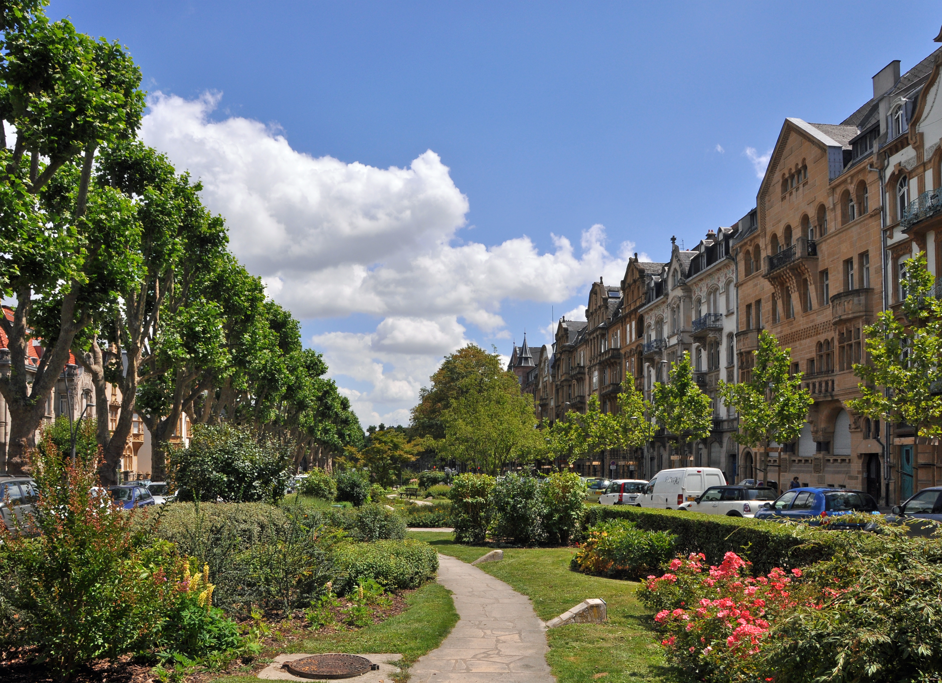 Metz (France): Avenue Foch